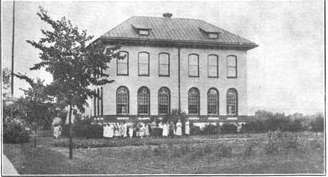 Craig Colony school